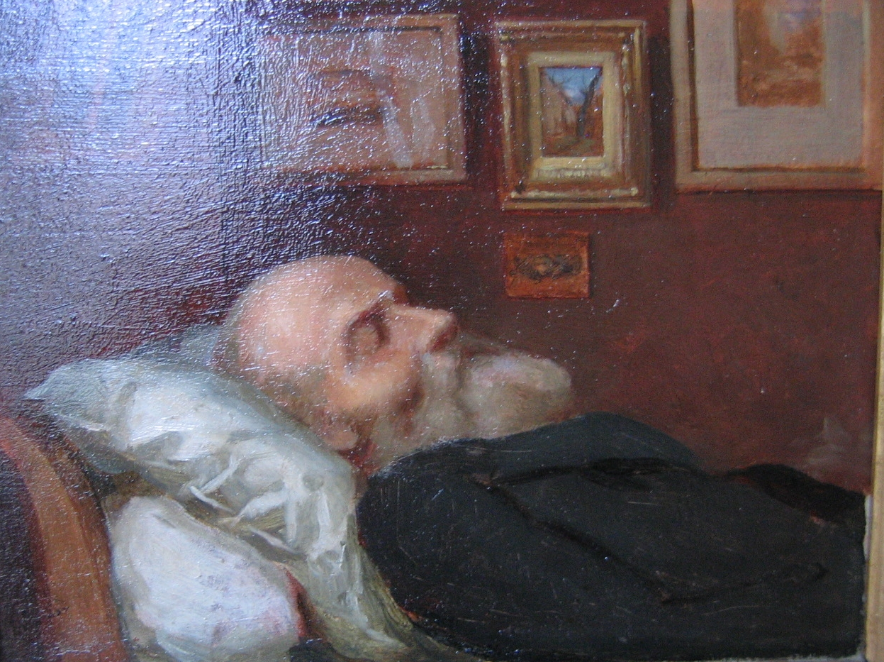 Jean Achard lying dead